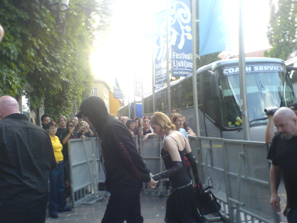 Marilyn Manson and Evan Rachel Wood before a concert in Ljubljana, Slovenia.